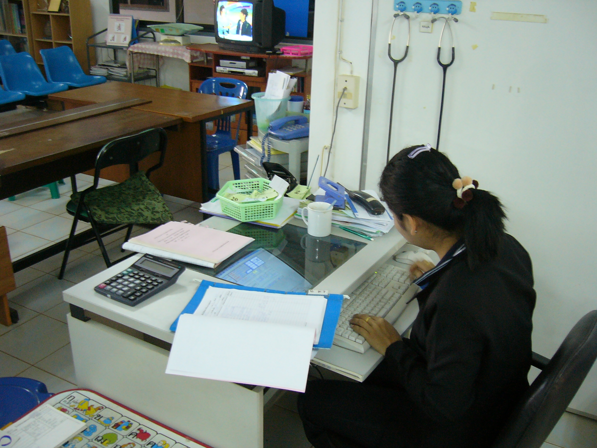 Rare placement of a computer screen --- seen in Na Wa Public Hospital, Nakhon Phanom province, Thailand